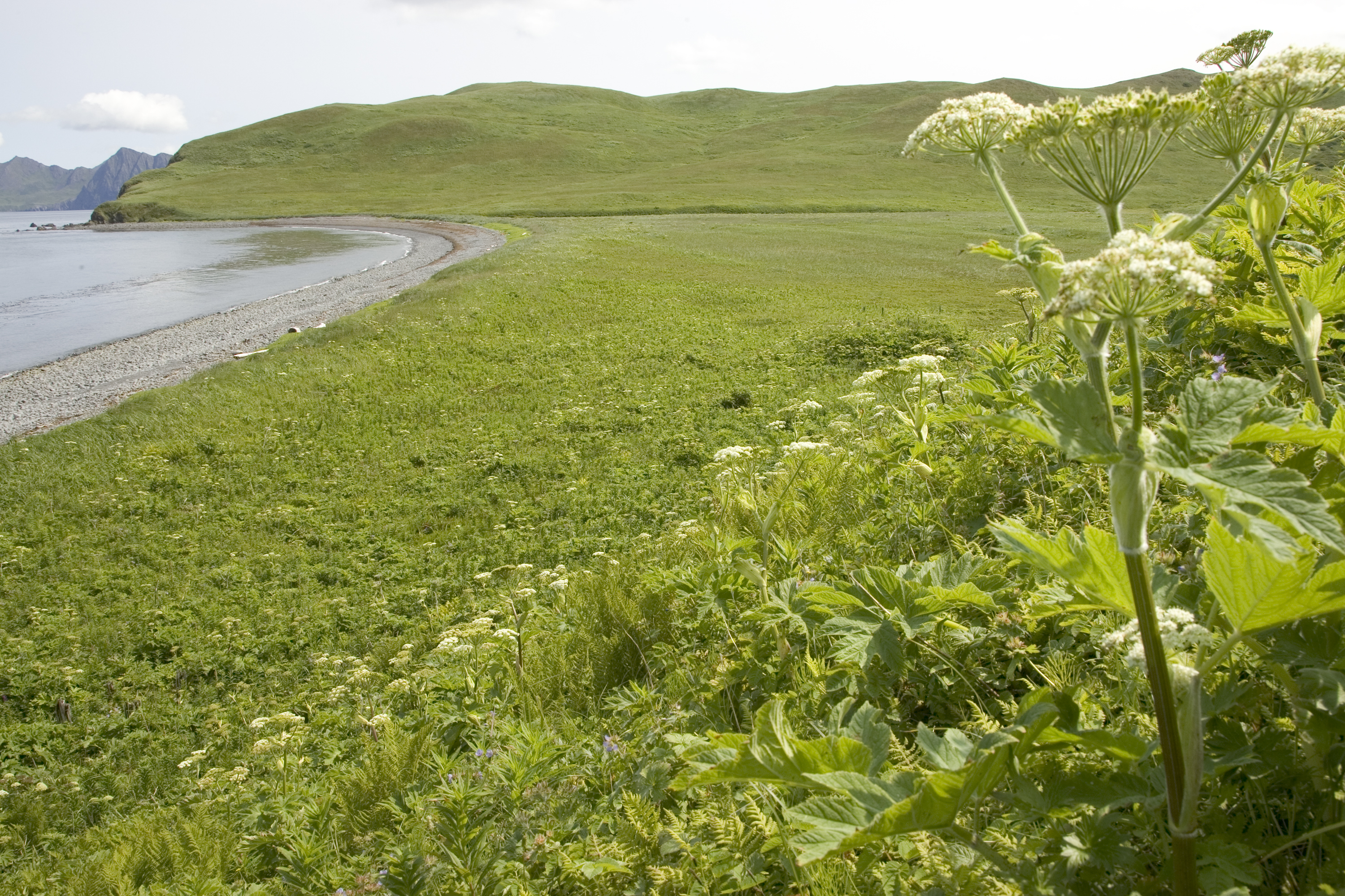 Bendel Island coastline. Alaska Maritime National Wildlife Refuge